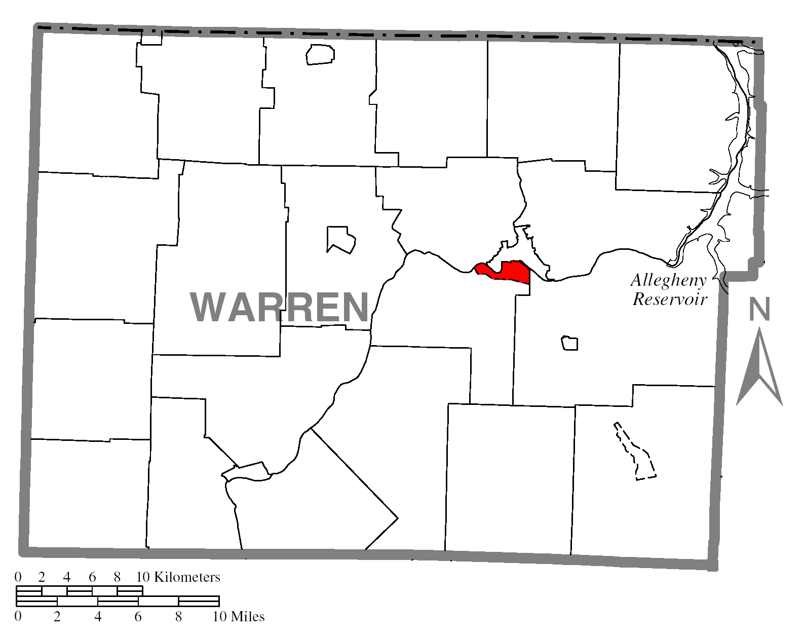 Map of Warren County higlighting Warren South.